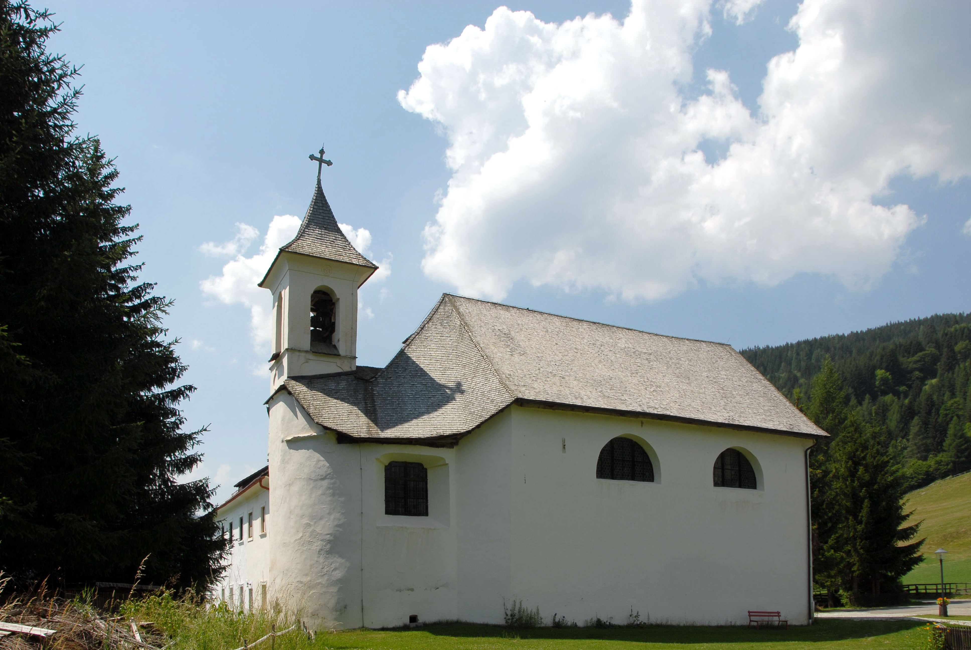 Subsidiary church Holy Trinity, formerly parish church Our Lady with Carmelites monastery in Zedlitzdorf, municipality Gnesau, district Feldkirchen, Carinthia, Austria, EU